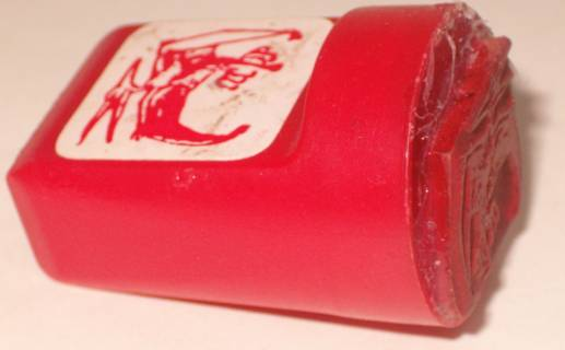 A toy rubber stamp featuring a pterosaur (not a dinosaur, as the title eroneously indicates). Photo taken on November 7th, 2004 by Leif K-Brooks.